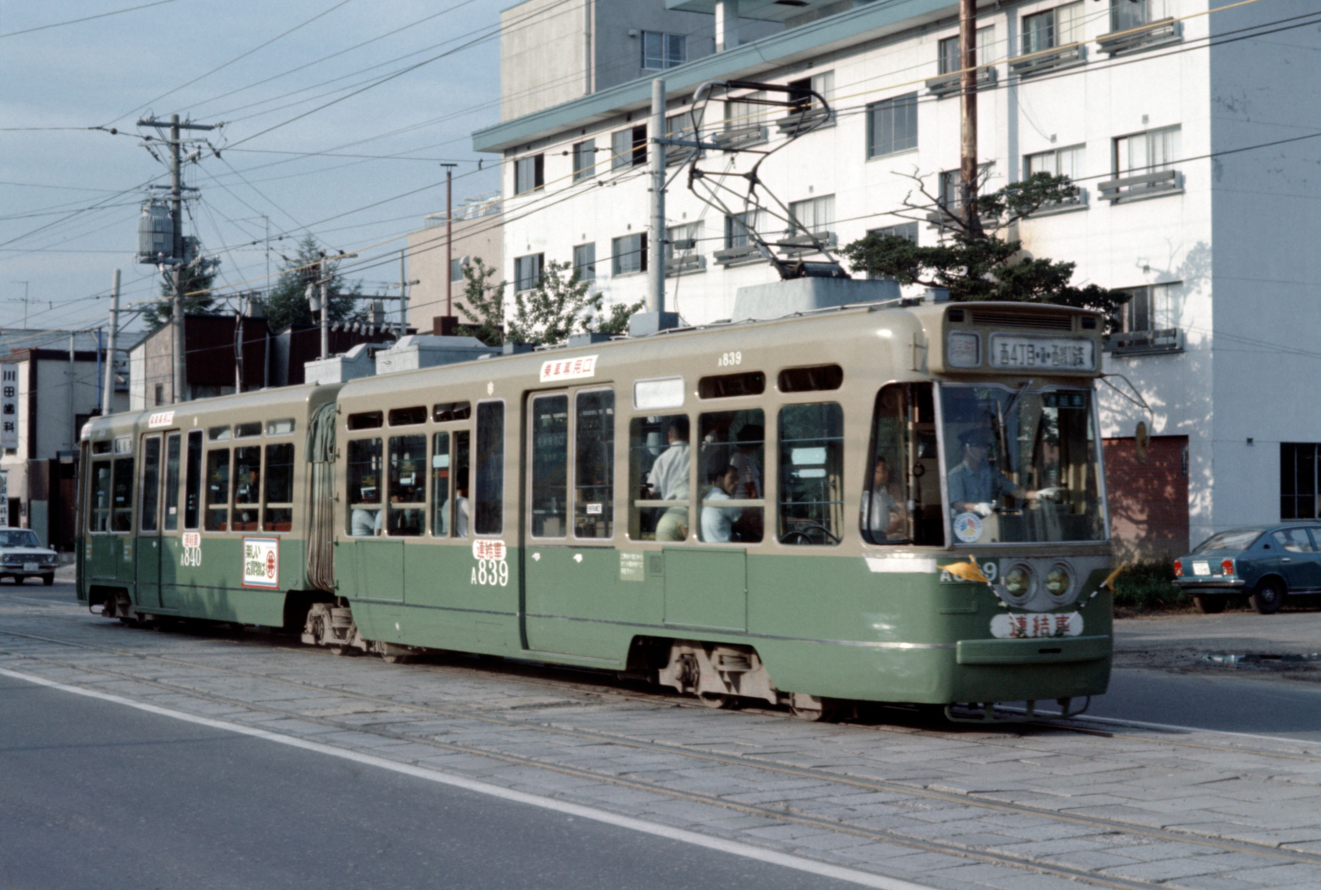 Sapporo City Tram TypeA830 A839-A840 at Nishisen 16jo